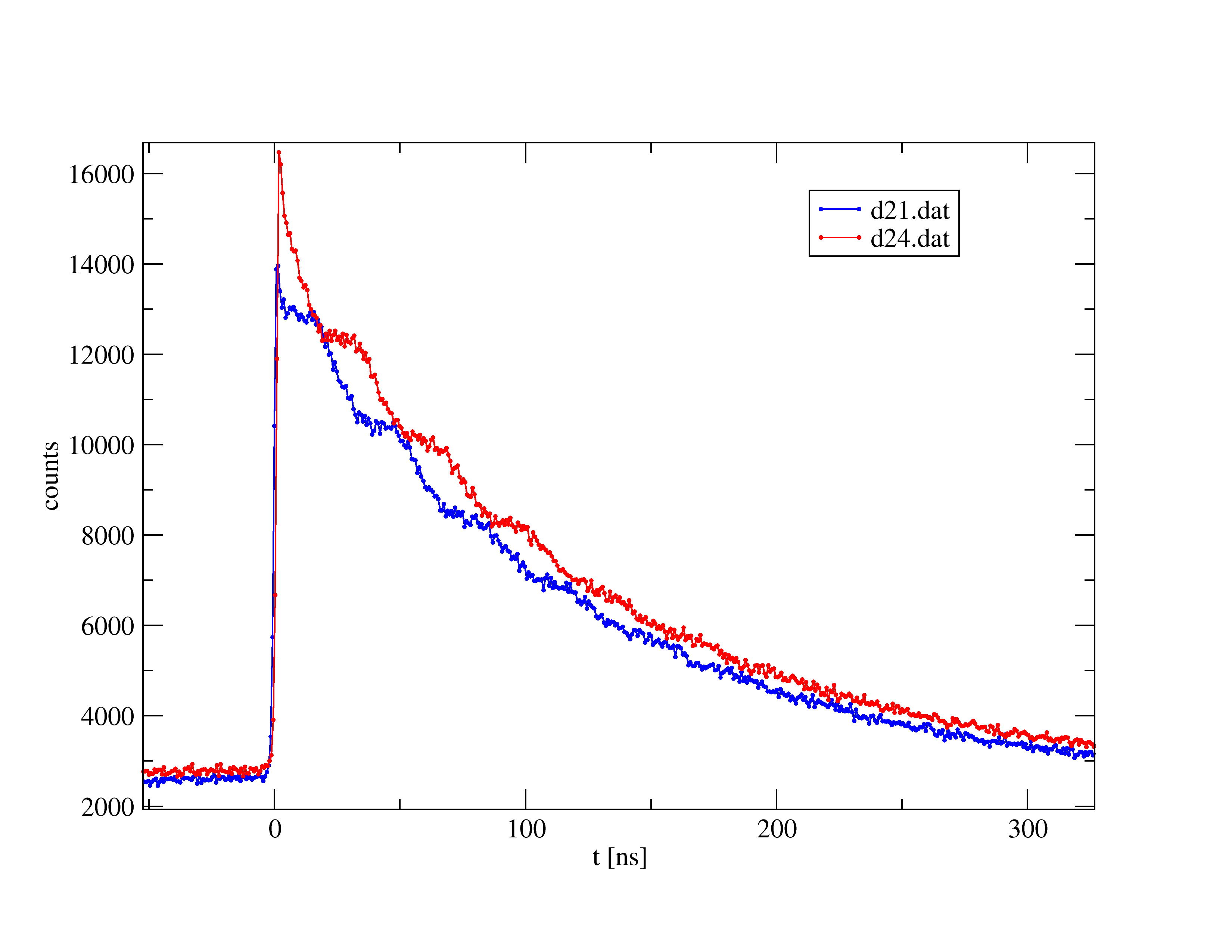 PAC-Spectroscopy: single spectra showing perturbation effect.